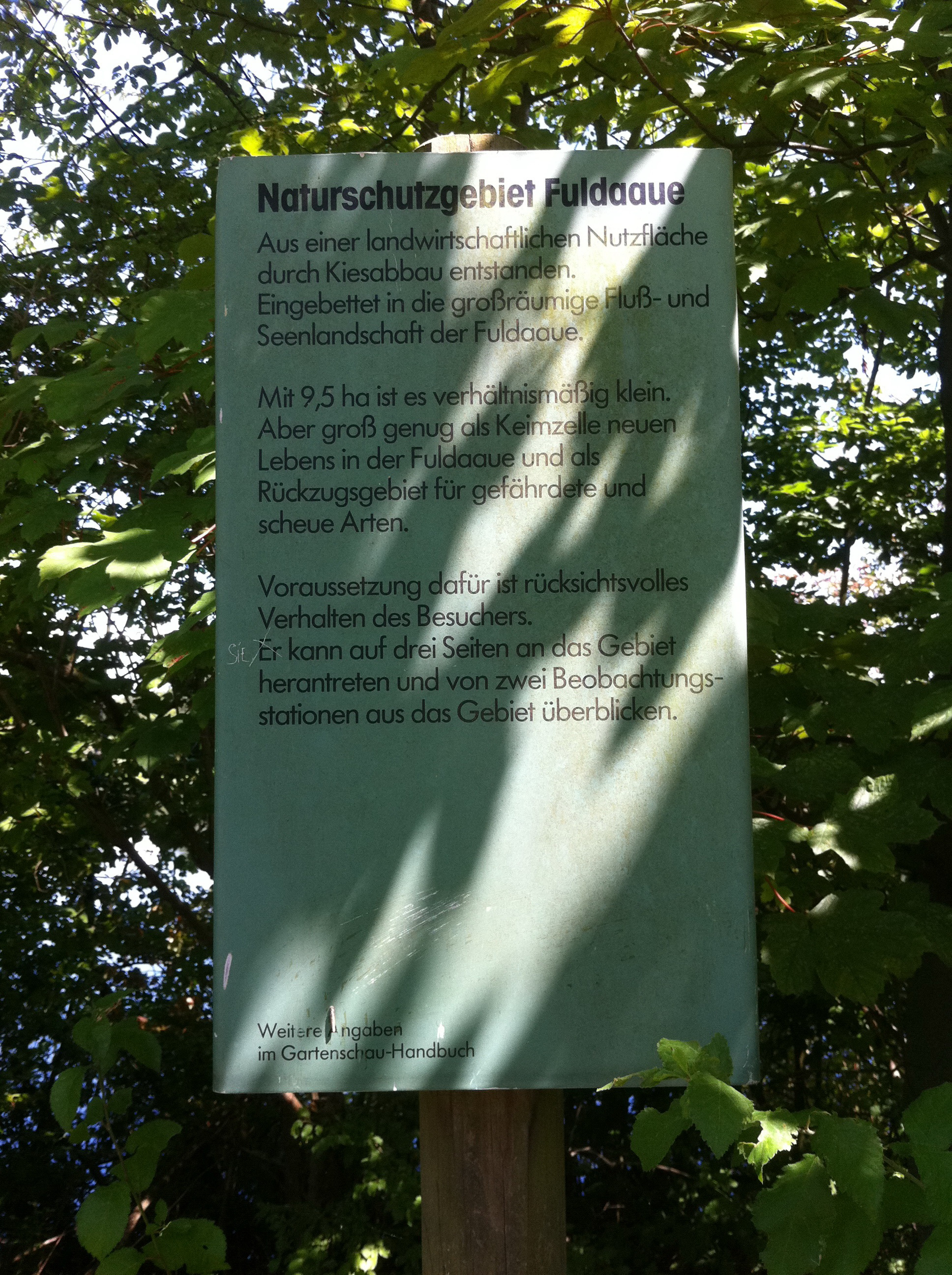 Information board in Fuldaaue Kassel (Germany)